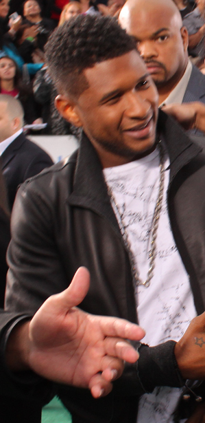 Usher Raymond, Anand Bhatt, Romeo Santos arrive to the Latin Grammy music awards together. Red Carpet Shot.